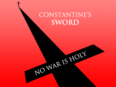 This is my own drawing of the central symbol in the film "Constantine's Sword", with the film's slogan ("No War is Holy") written across the transept of the shadow of a cross. This is not a copy of any artwork in the film.